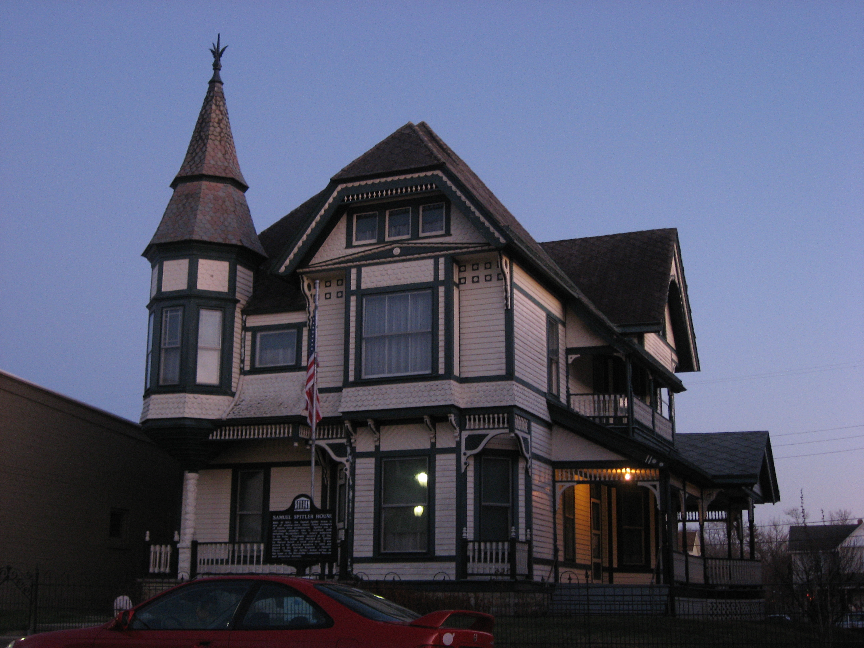 Front of the Samuel Spitler House, located at 14 Market Street in downtown Brookville, Ohio, United States. Built in 1894, it is listed on the National Register of Historic Places.